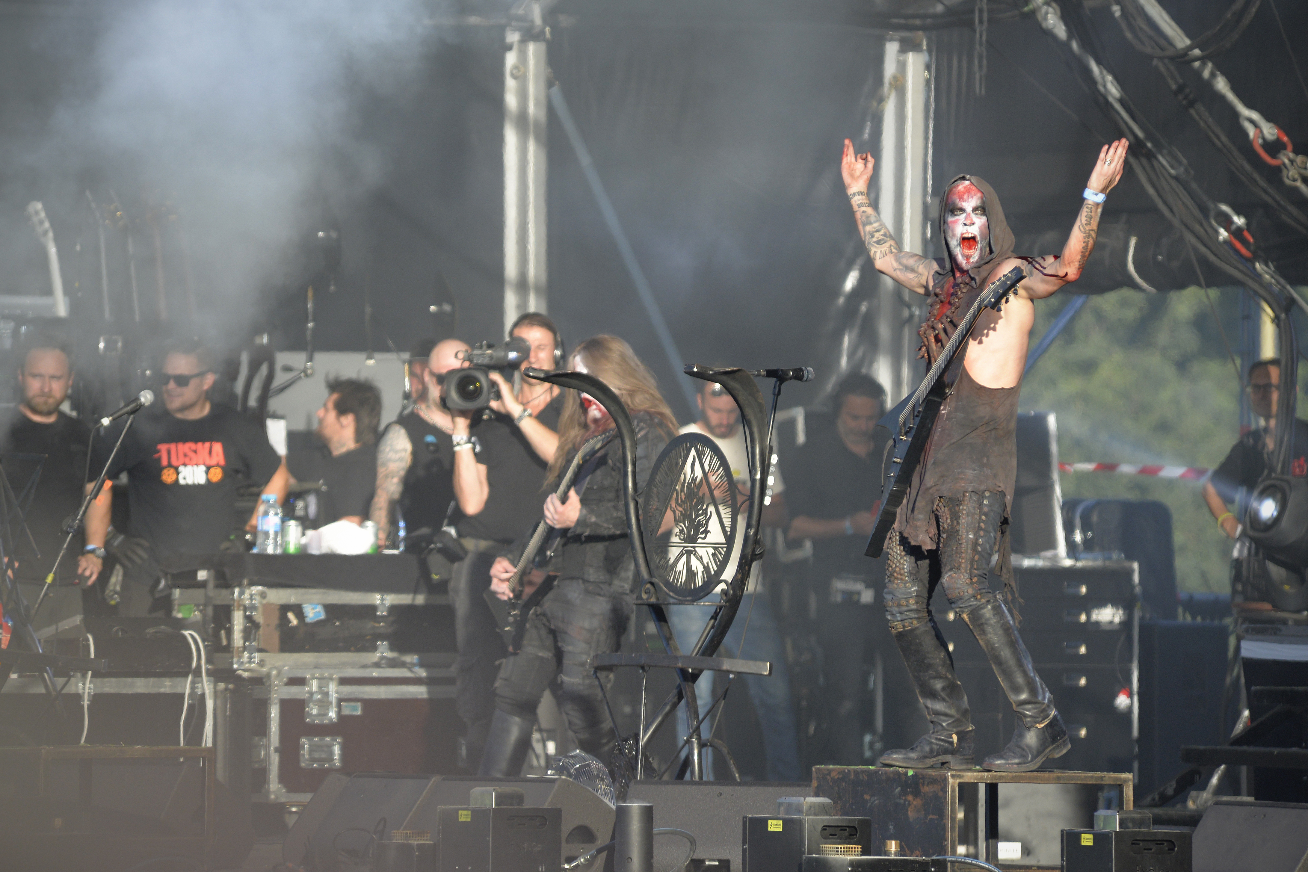 Polish band Behemoth at 2017 Hellfest, France.